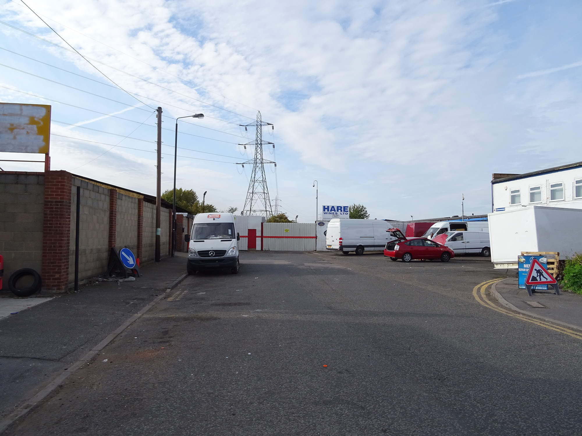 Lea Bridge Stadium - On this site stood Lea Bridge Stadium, the home of Lea Bridge Speedway team 1928-1938 and Clapton Orient football Club. The O's moved to this site from nearby Millfields Road in 1930 before moving to Brisbane Road in 1937 - 24 Rigg Approach, Walthamstow, London E10 7QN